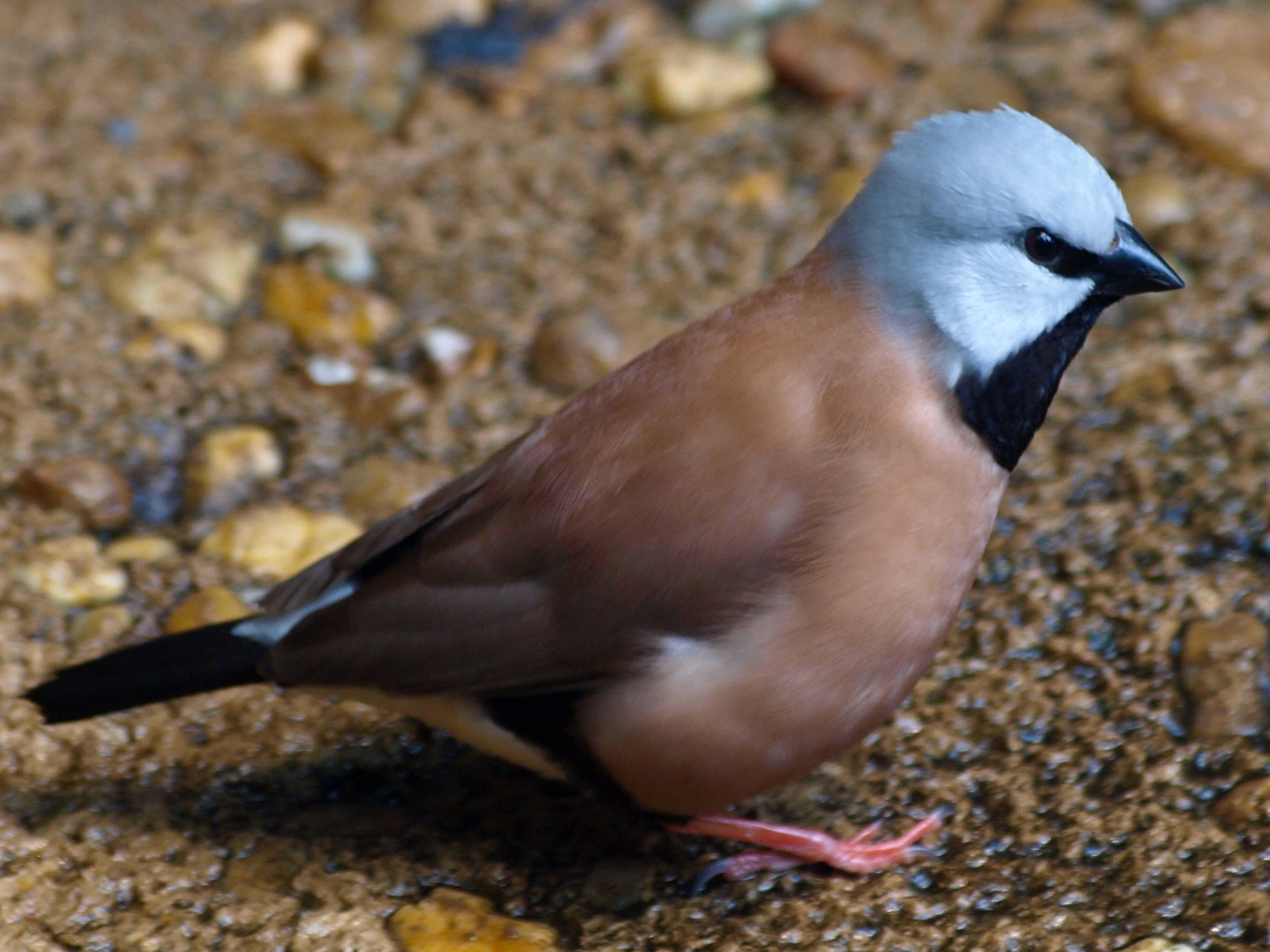 Long-tailed Finch National Aquarium, Baltimore April 5, 2011